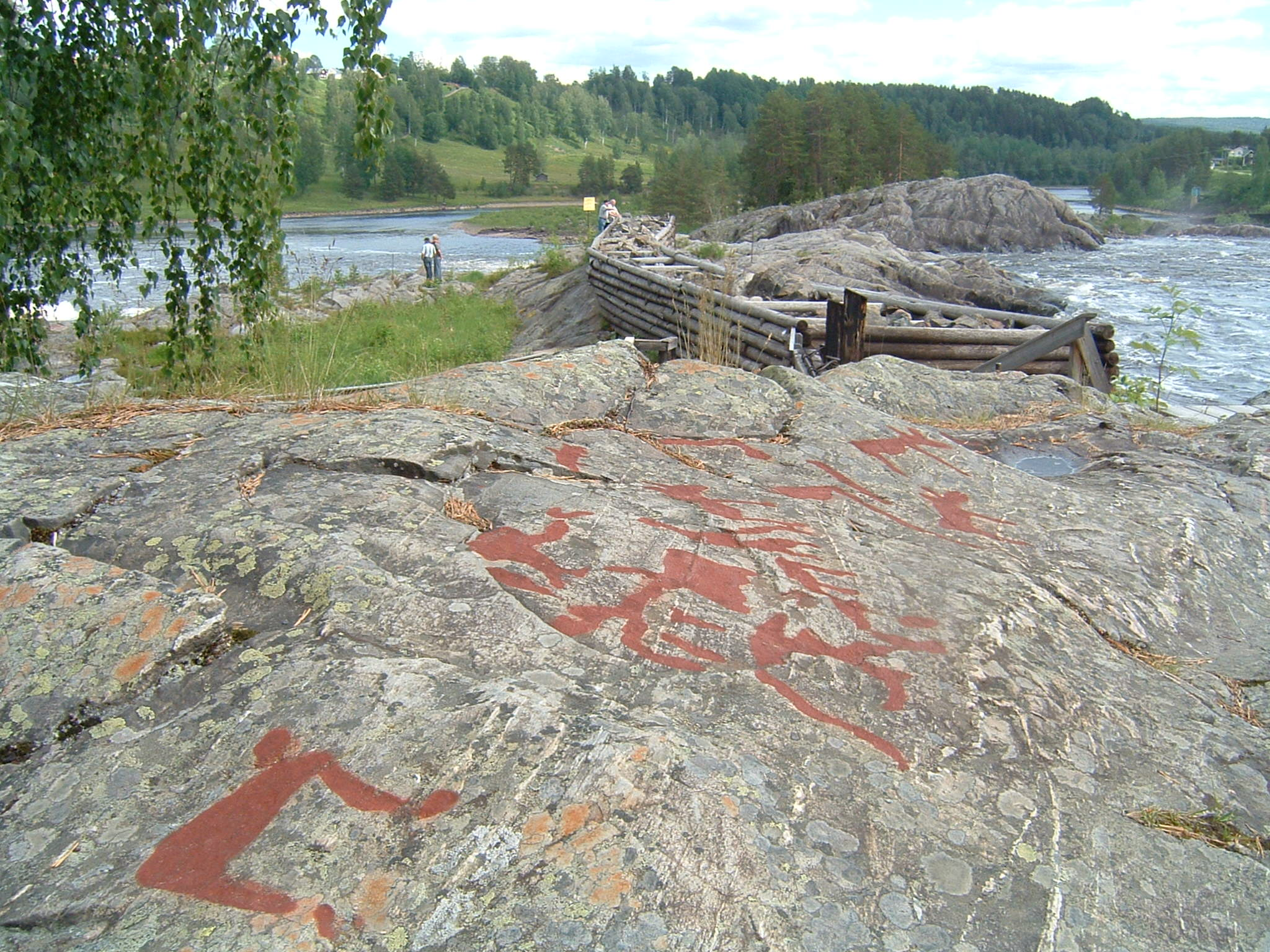 Petroglyphs (rock carvings) at Nämforsen in Sollefteå Municipality, viewed from west